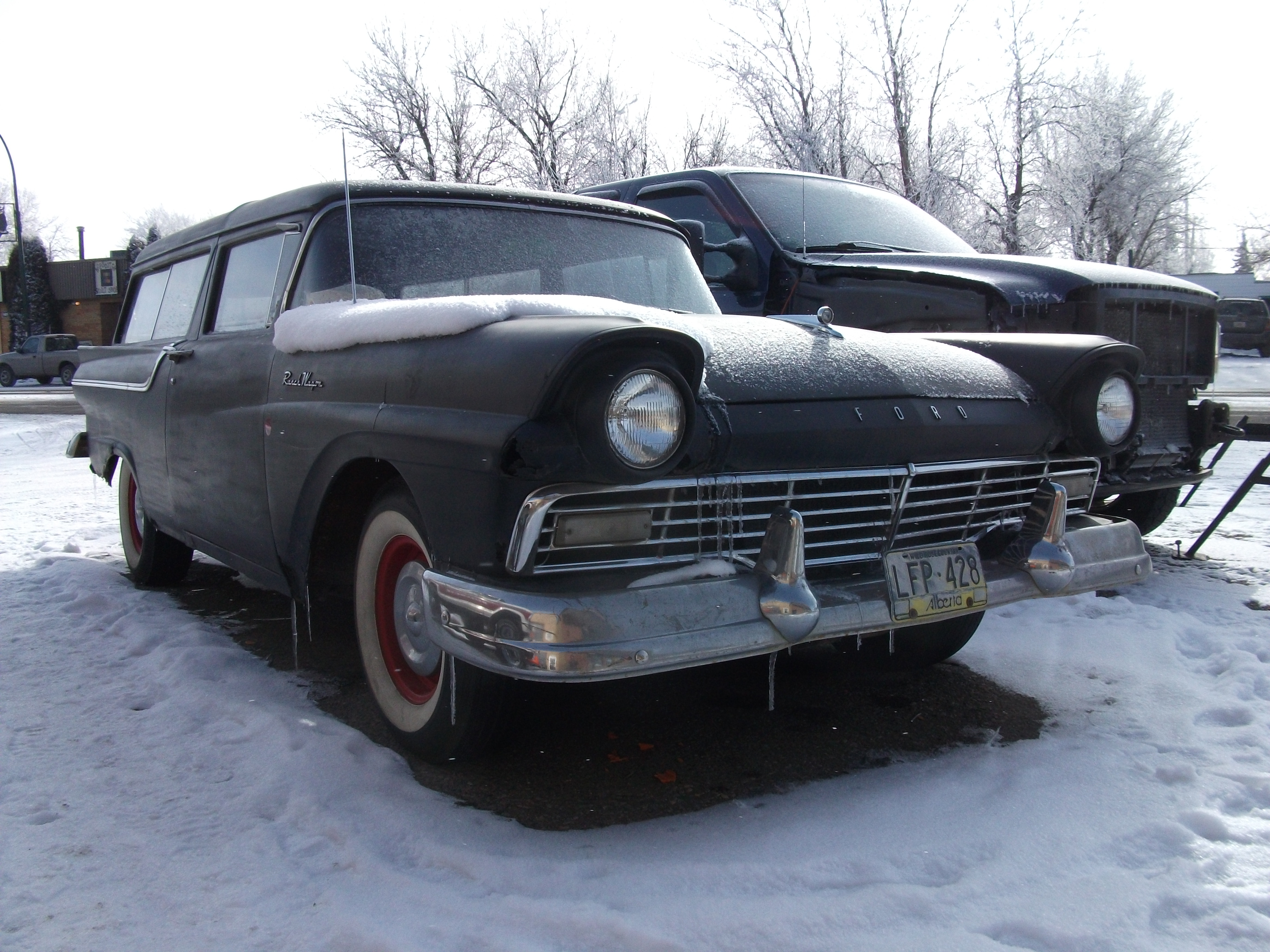 1957 Ford Ranch Wagon